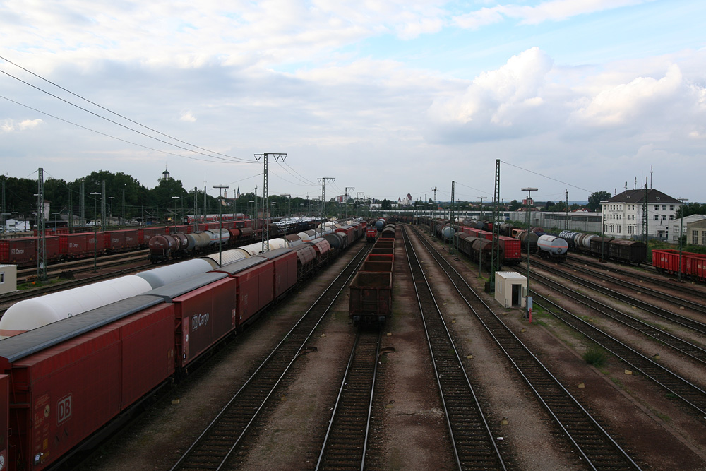 The classification yard near the main railway station of Ingolstadt, Germany